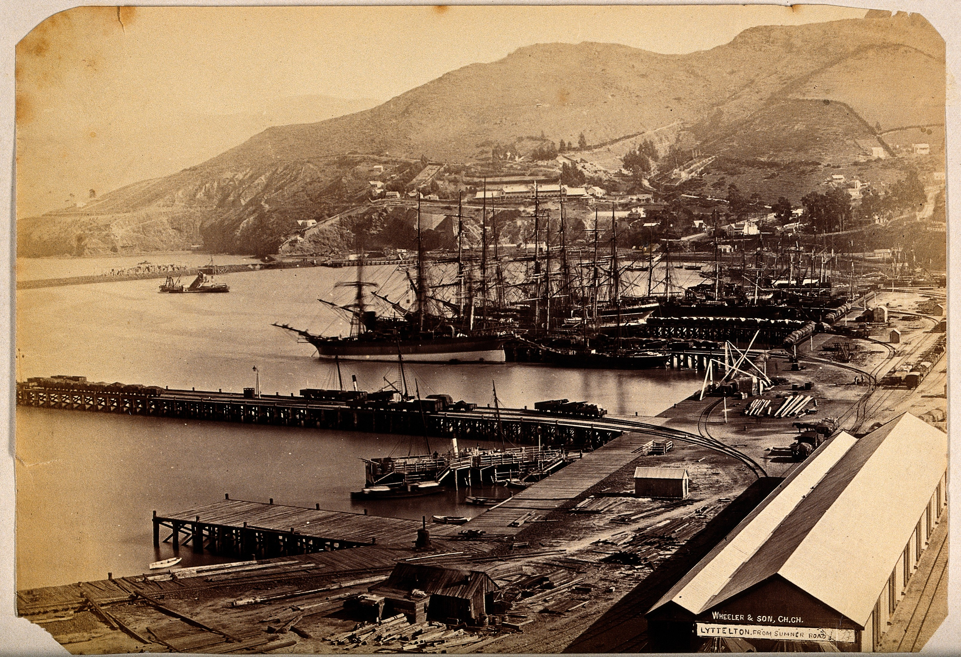 Lyttelton, New Zealand: the port and town from Sumner Road. Albumen print. Iconographic Collections Keywords: Expedition; Wheeler & Son; Exploration; Antarctic; Ernest Henry Shackleton; Robert Falcon Scott; Expeditions